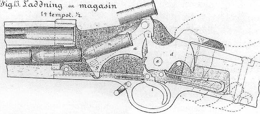 Krag-Peterssons repeating rifle M1876. Taken from the original issue training manual from the Royal Norwegian Navy.